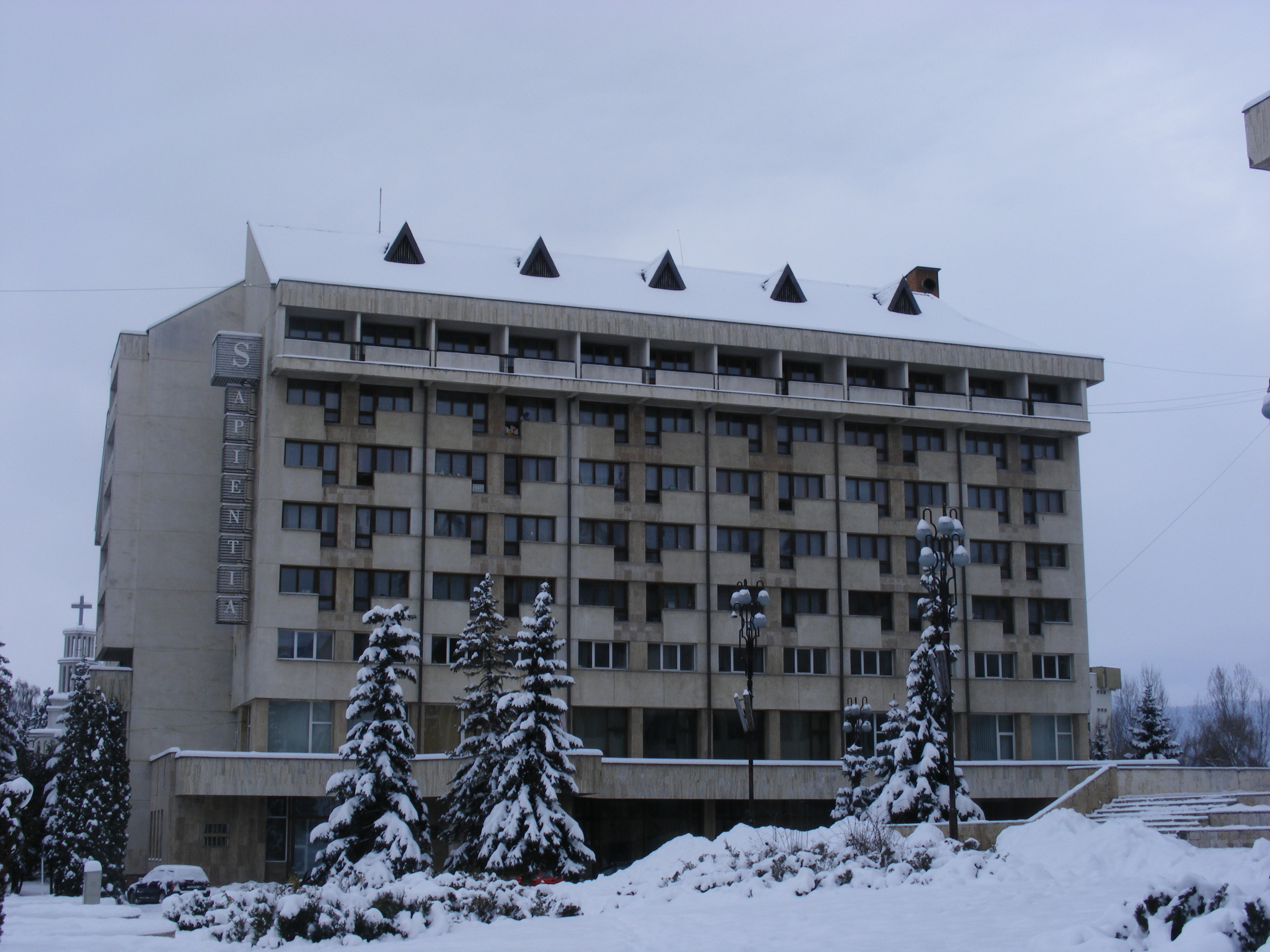 The Sapientia's buildin in Csíkszereda